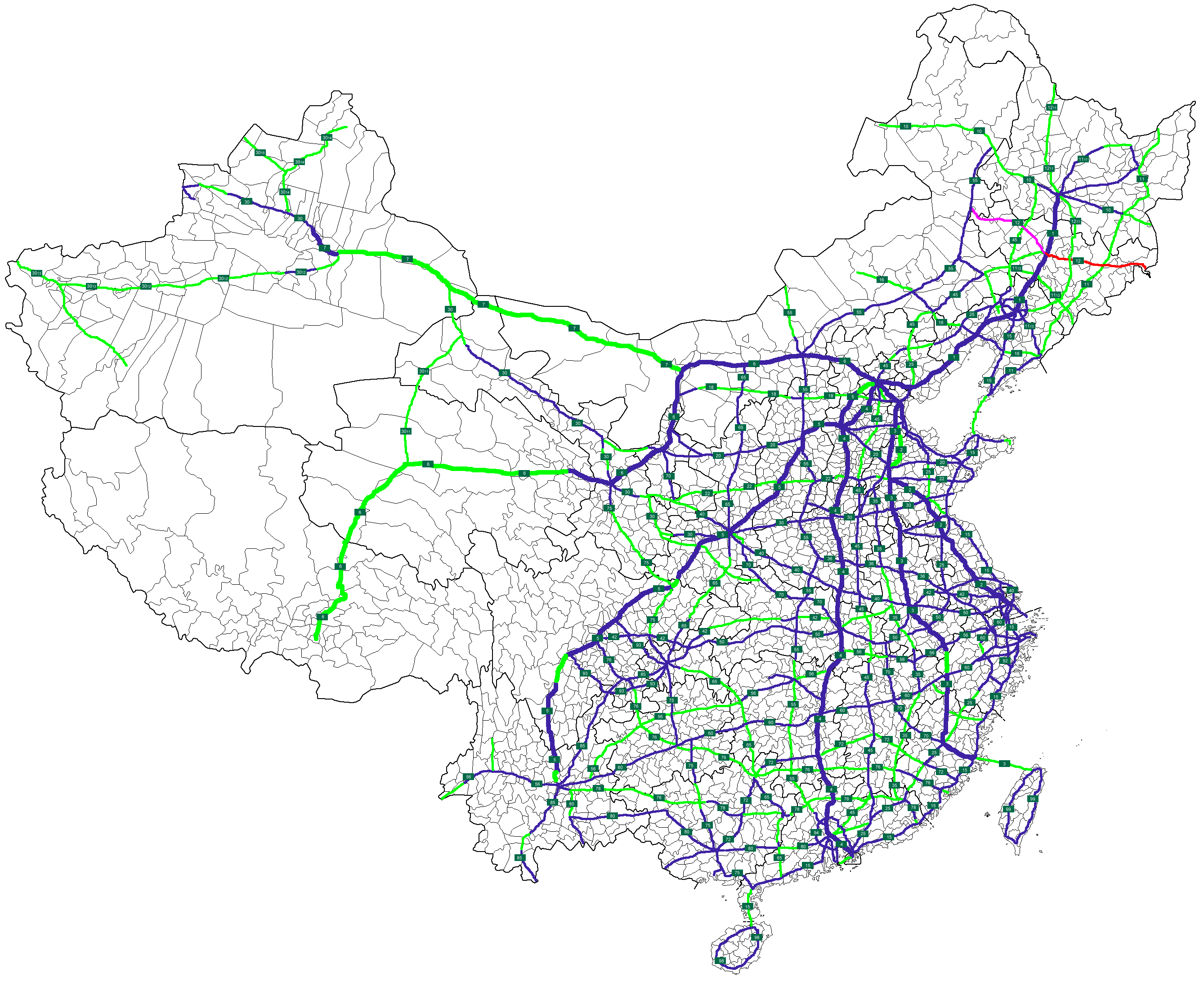 Source file(Map of NTHS Expressways of China.png) was uploaded ASDFGH at en.wikipedia. Later version(s) were uploaded by Nima Farid at en.wikipedia. Modification for NTHS Expressway G12 is my own work.